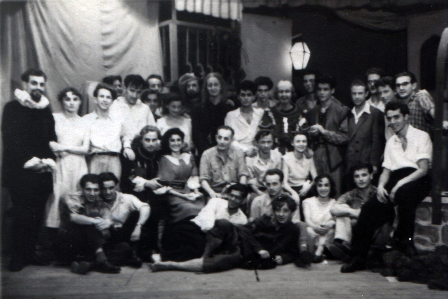 exam_ staging_ St. Stanchev_class_Boyan Danovski